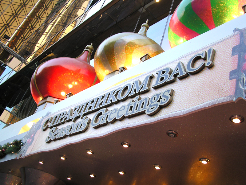 This is a Christmas decoration outside a shopping mall in Tsim Sha Tsui, Hong Kong. It has the English expression "SEASON'S GREETINGS", as well as the Russian expression "С ПРАЗДНИКОМ ВАС!". The photograph was taken by Alan Mak on December 27th, 2005.